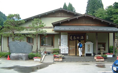 道志の湯 撮影日：2003年 7月29日 撮影地：道志の湯（山梨県南都留郡道志村字池之原） 撮影者：cory 出典： Doshi-no-yu (Doshi Onsen). Date: 2003-07-29 (Jul 29, 2003) Place: Doshi Yamanashi, Japan. Author: ISAKA Yoji (cory)